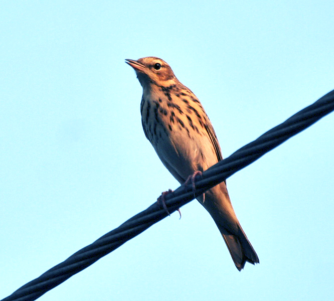 Tree Pipit Anthus trivialis at Sindhrot in Vadodara District of Gujarat, India.